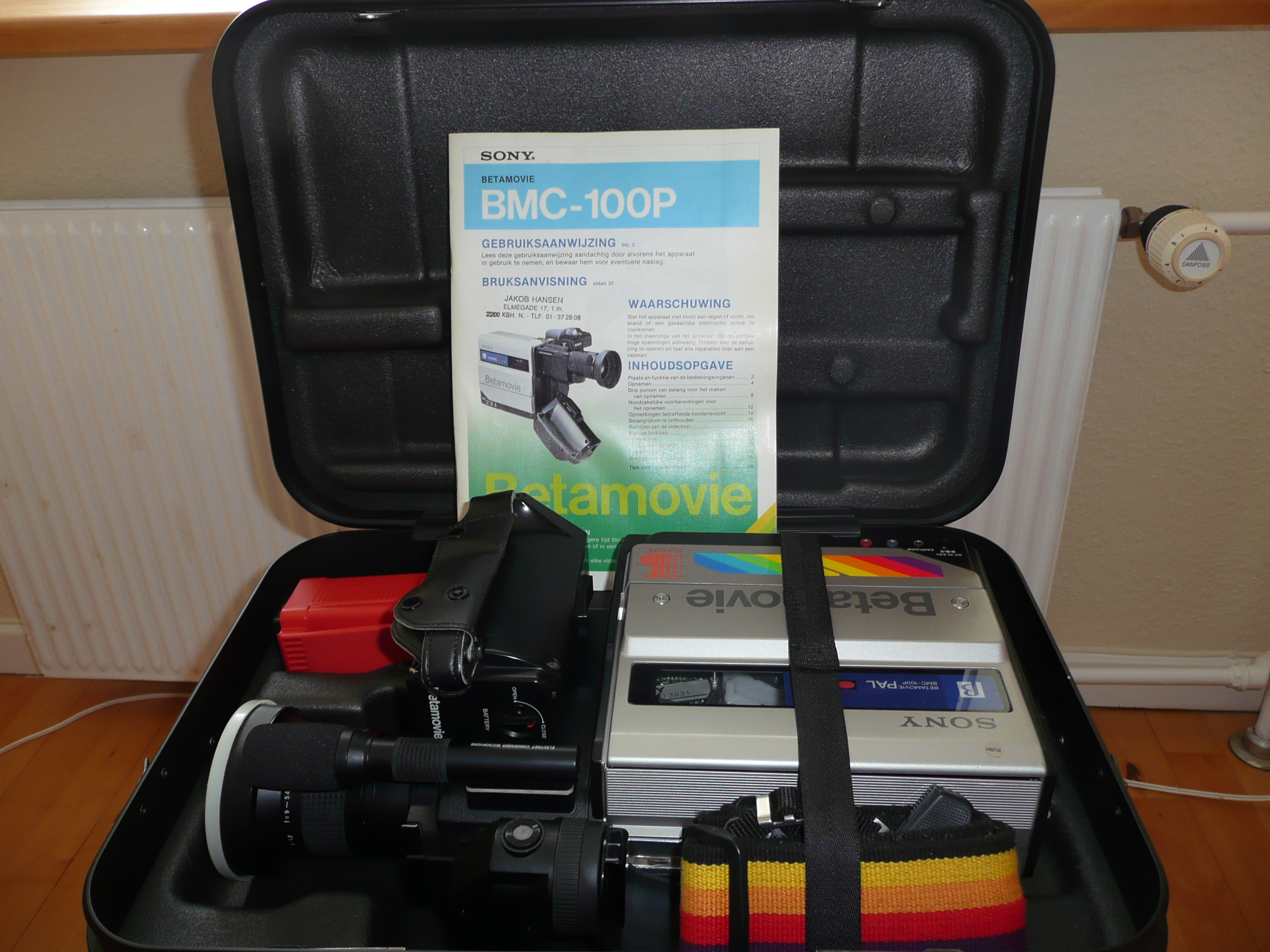 Sony Betamovie BMC-100P is an early camcorder (combined video camera and videocassette recorder) for the Betamax format. Released in 1983. This unit is placed in a hard shell carrying case.